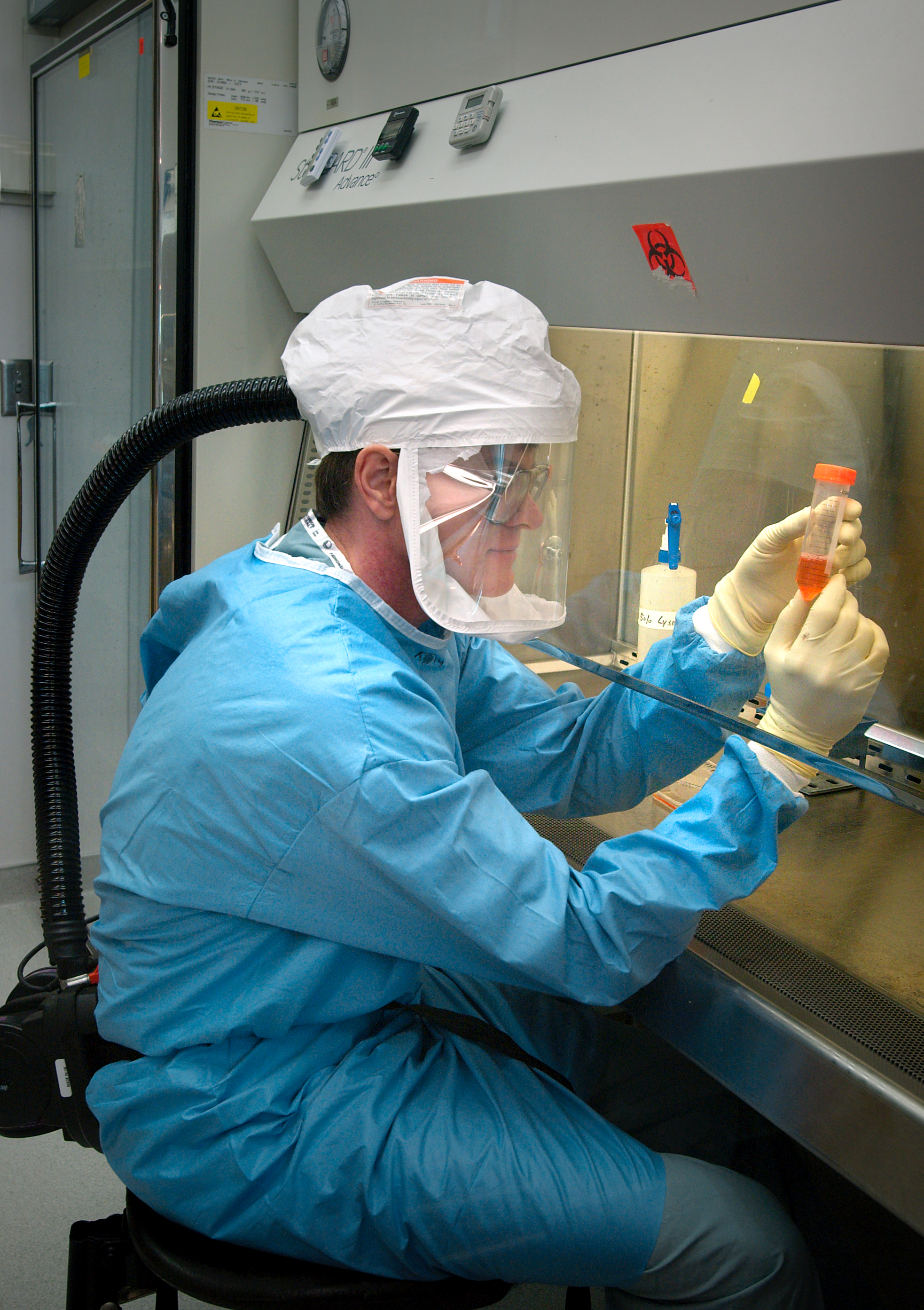 This 2005 photograph of the Centers for Disease Control and Prevention’s Dr. Terrence Tumpey, one of the organization’s staff microbiologists and a member of the National Center for Infectious Diseases (NCID), showed him examining reconstructed 1918 Pandemic Influenza Virus inside a specimen vial containing an orange-colored supernatant culture medium. Dr. Tumpey, here seen in a Biosafety Level 3-enhanced laboratory setting, was working beneath a flow hood, which pulls air from outside the hood into the hood’s confines, and is then filtered of any pathogens before being re-circulated inside the self contained laboratory atmosphere. Dr. Tumpey recreated the 1918 influenza virus in order to identify the characteristics that made this organism such a deadly pathogen. Research efforts such as this, enables researchers to develop new vaccines and treatments for future pandemic influenza viruses. The 1918 Spanish flu epidemic was caused by an influenza A (H1N1) virus, killing more than 500,000 people in the United States, and up to 50 million worldwide. The possible source was a newly emerged virus from a swine or an avian host of a mutated H1N1 virus. Many people died within the first few days after infection, and others died of complications later. Nearly half of those who died were young, healthy adults. Influenza A (H1N1) viruses still circulate today after being introduced again into the human population in the 1970s.